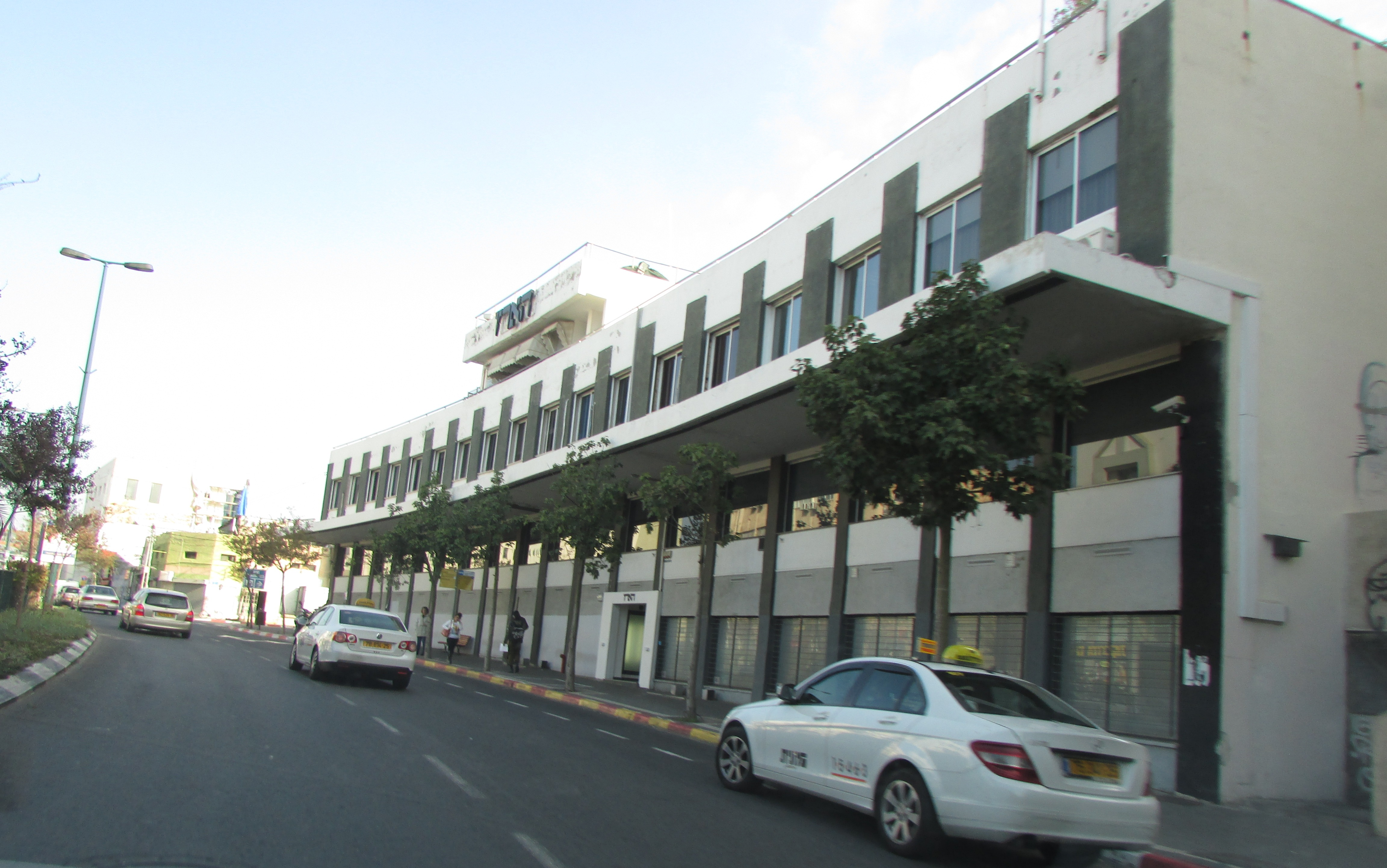 Haaretz building in Tel Aviv